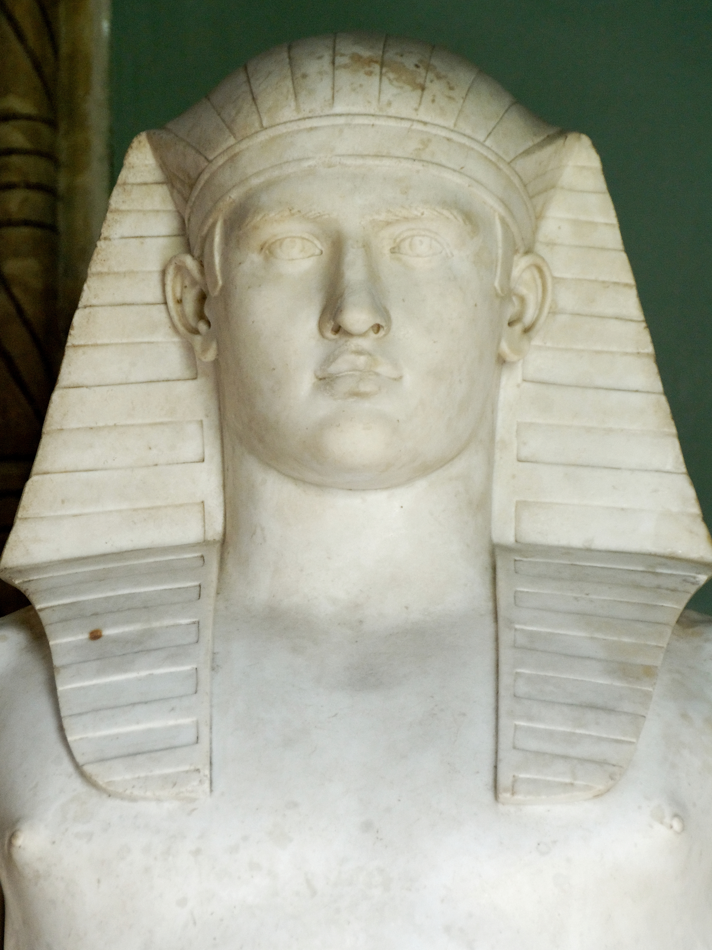 Antinous as Osiris. Marble, Roman artwork, second part of Hadrian's reign, ca. 131–138 CE. From the Serapaeum of the Canope in the Villa Adriana, near Tivoli, 1736.